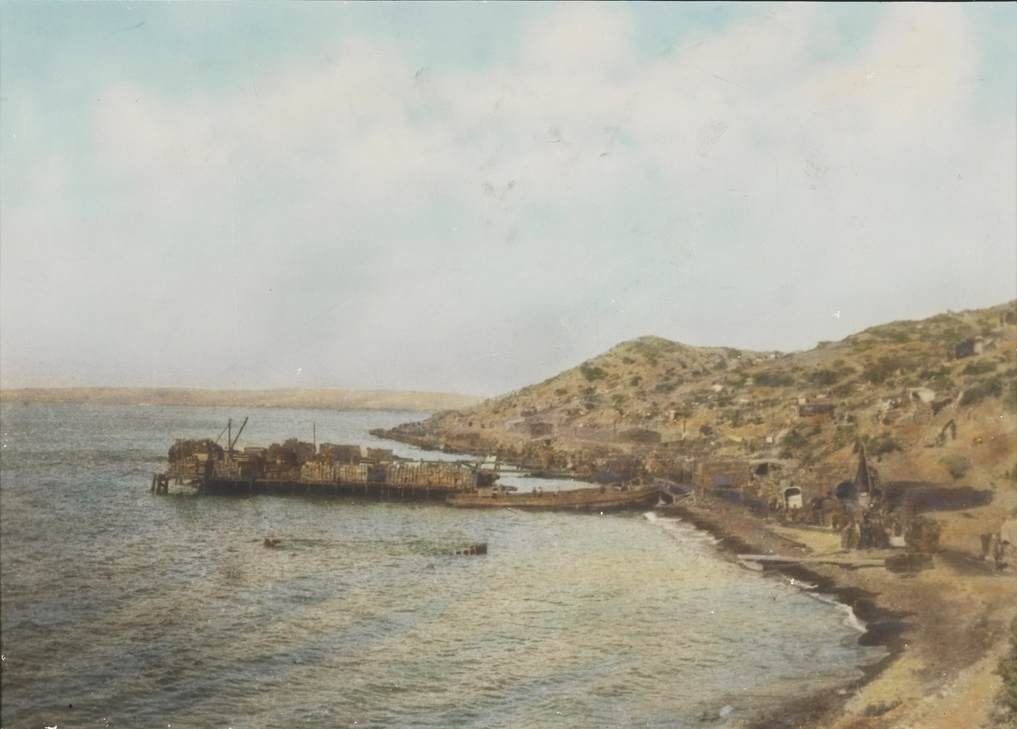 Anzac Cove and New Zealand Point, looking north, 1915, hand-colored 1920 print made from original, produced by Colart's Studios, Melbourne, State Library of New South Wales, PXD 481/f. 5